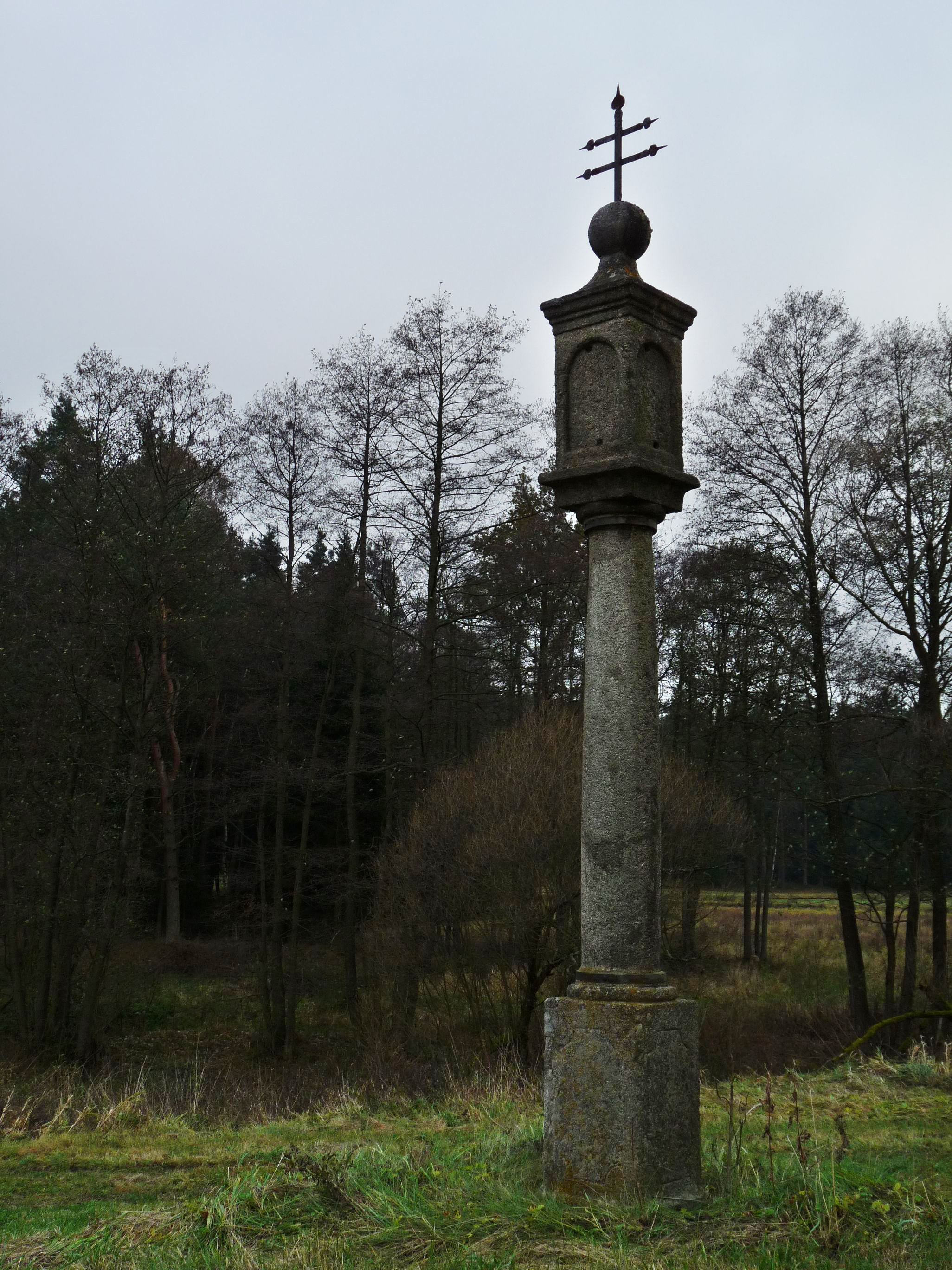 Wayside shrine in the village of Lhota, part of the municipality of Číměř, Jindřichův Hradec District, South Bohemian Region, Czech Republic.